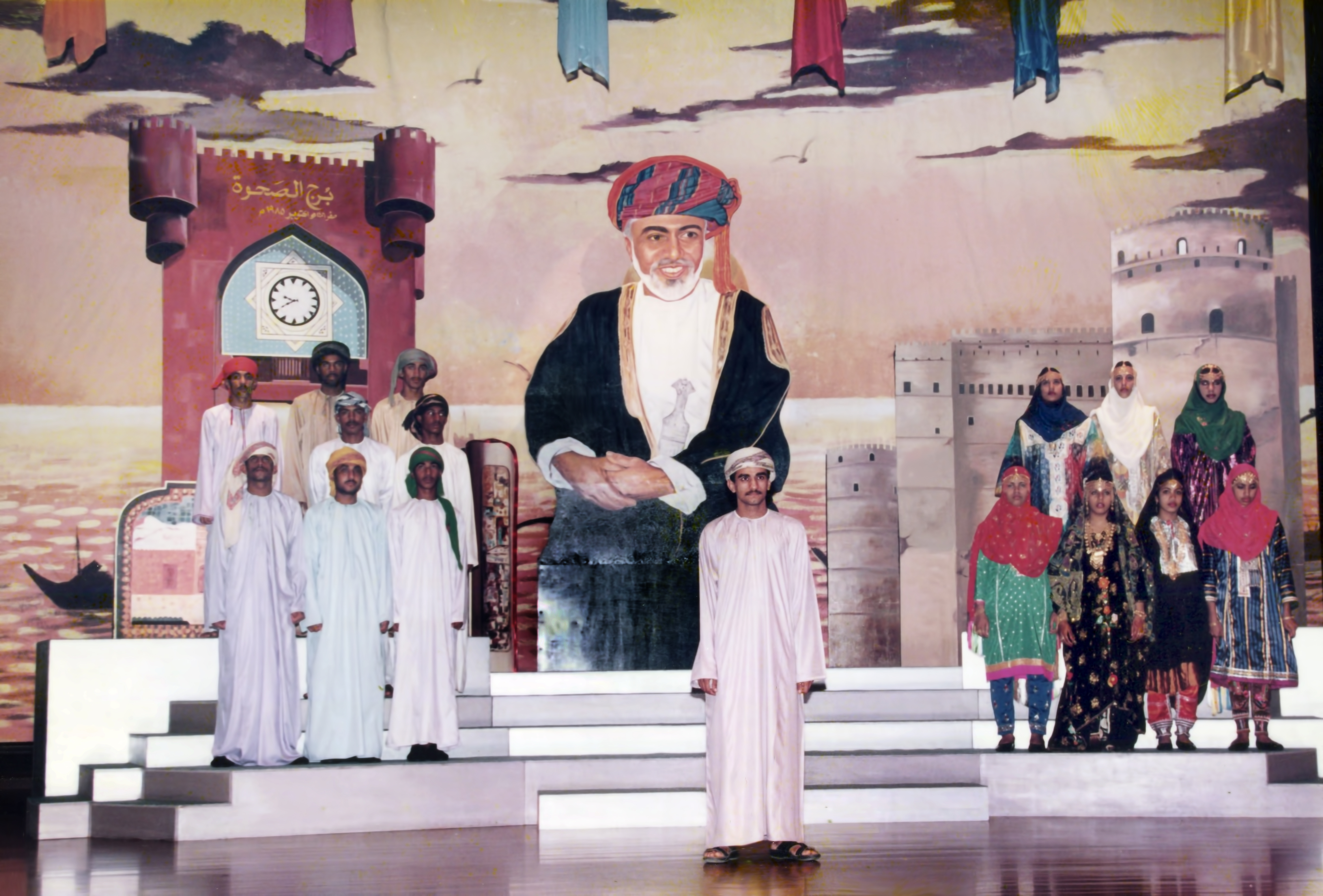 Mohammed Said Al-Shanfari directed Silver Universary